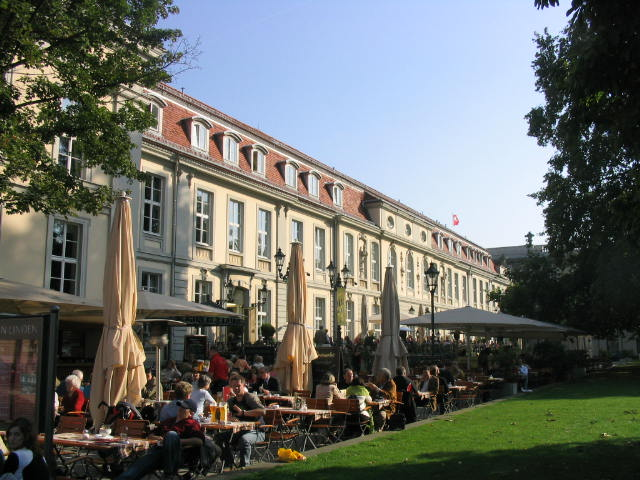 Description: Prinzessinnenpalais in Berlin, Unter den Linden. Source: self-made. I release it into the public domain.